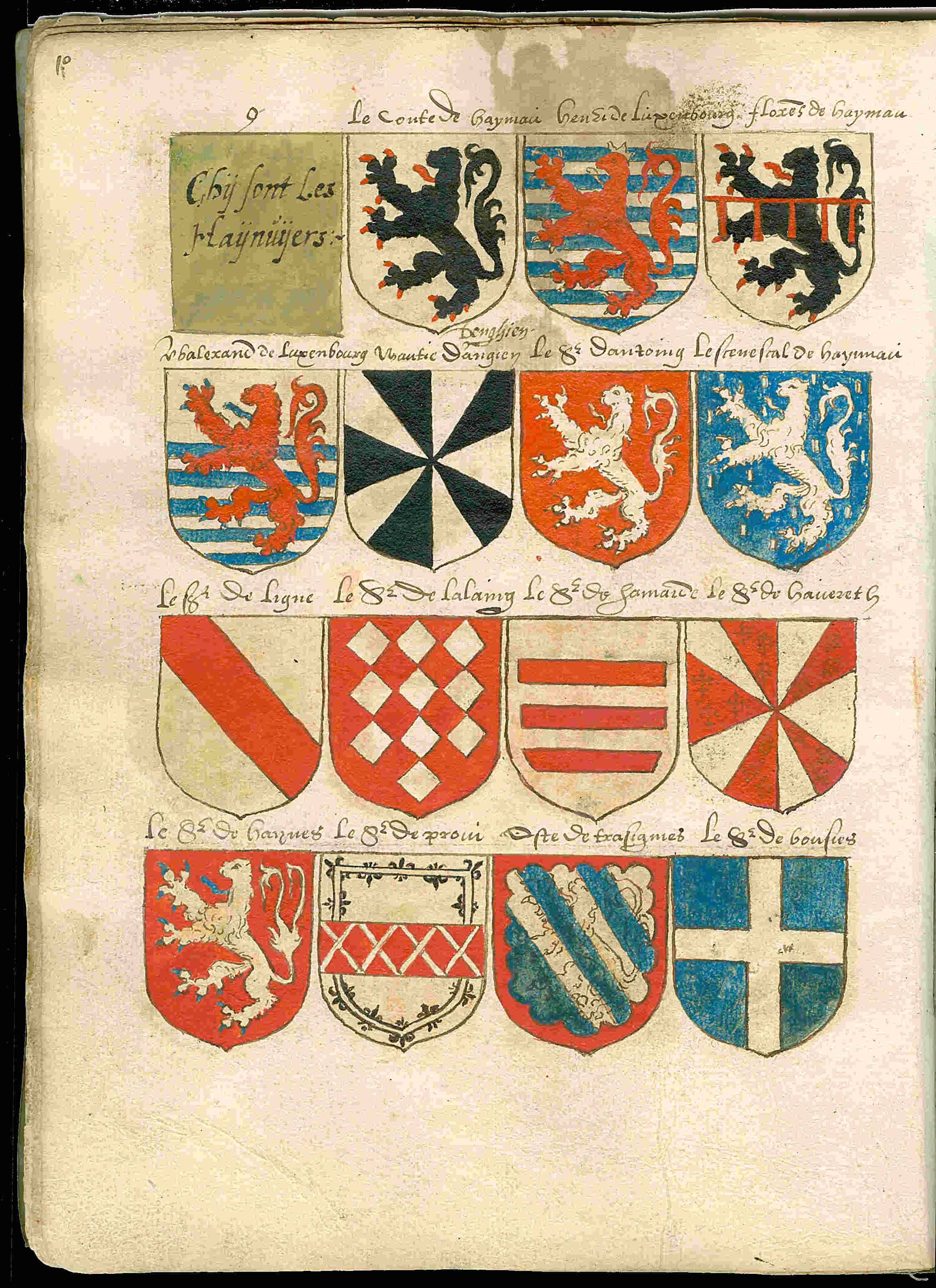 Page 10 from a copy of the Beyeren armorial / Wapenboek Beyeren from ca. 1600. The original Beyeren armorial from 1405 can be viewed at the website of the KB